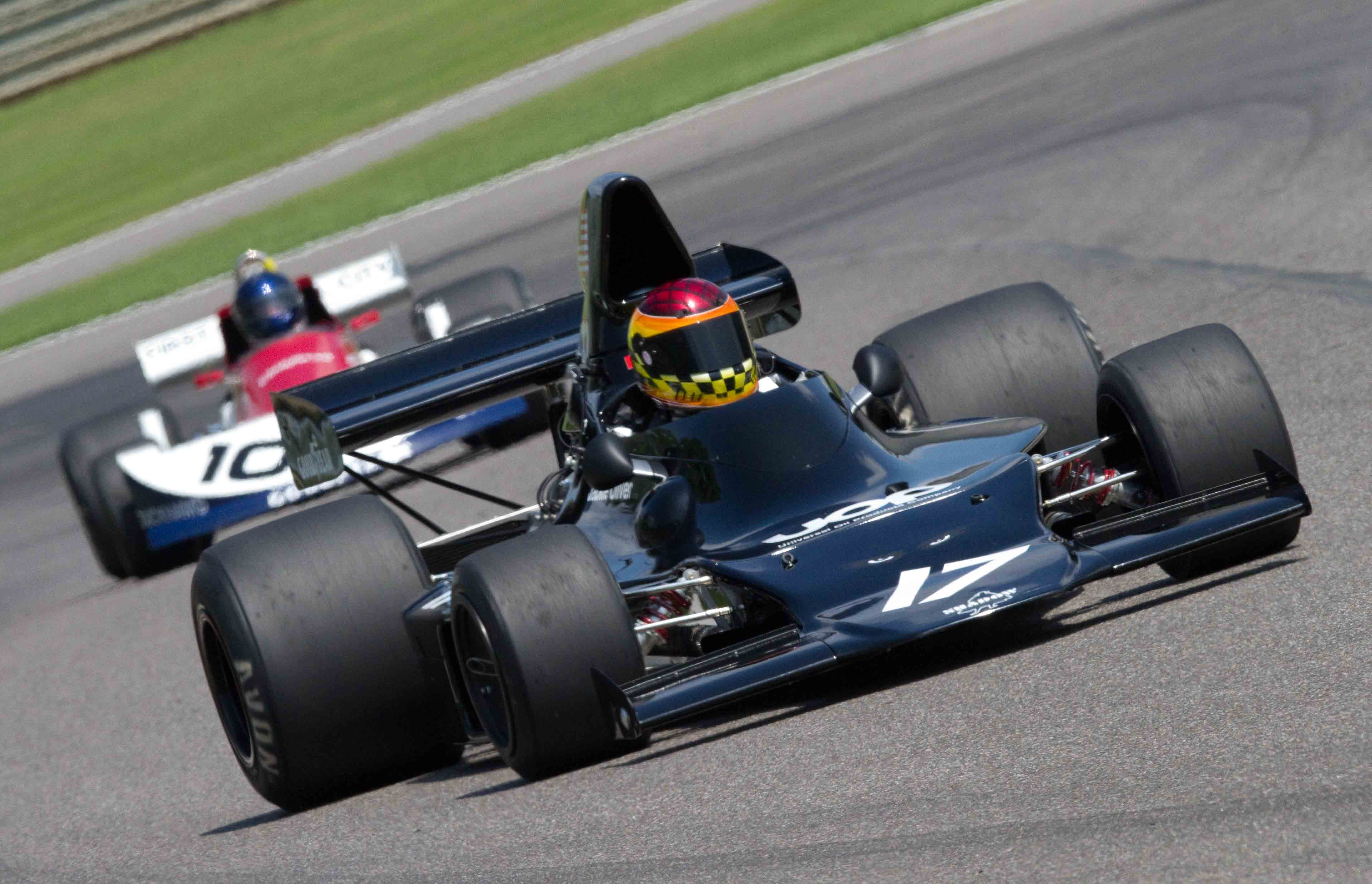 Shadow DN1 at Barber Motorsports Park, 2010